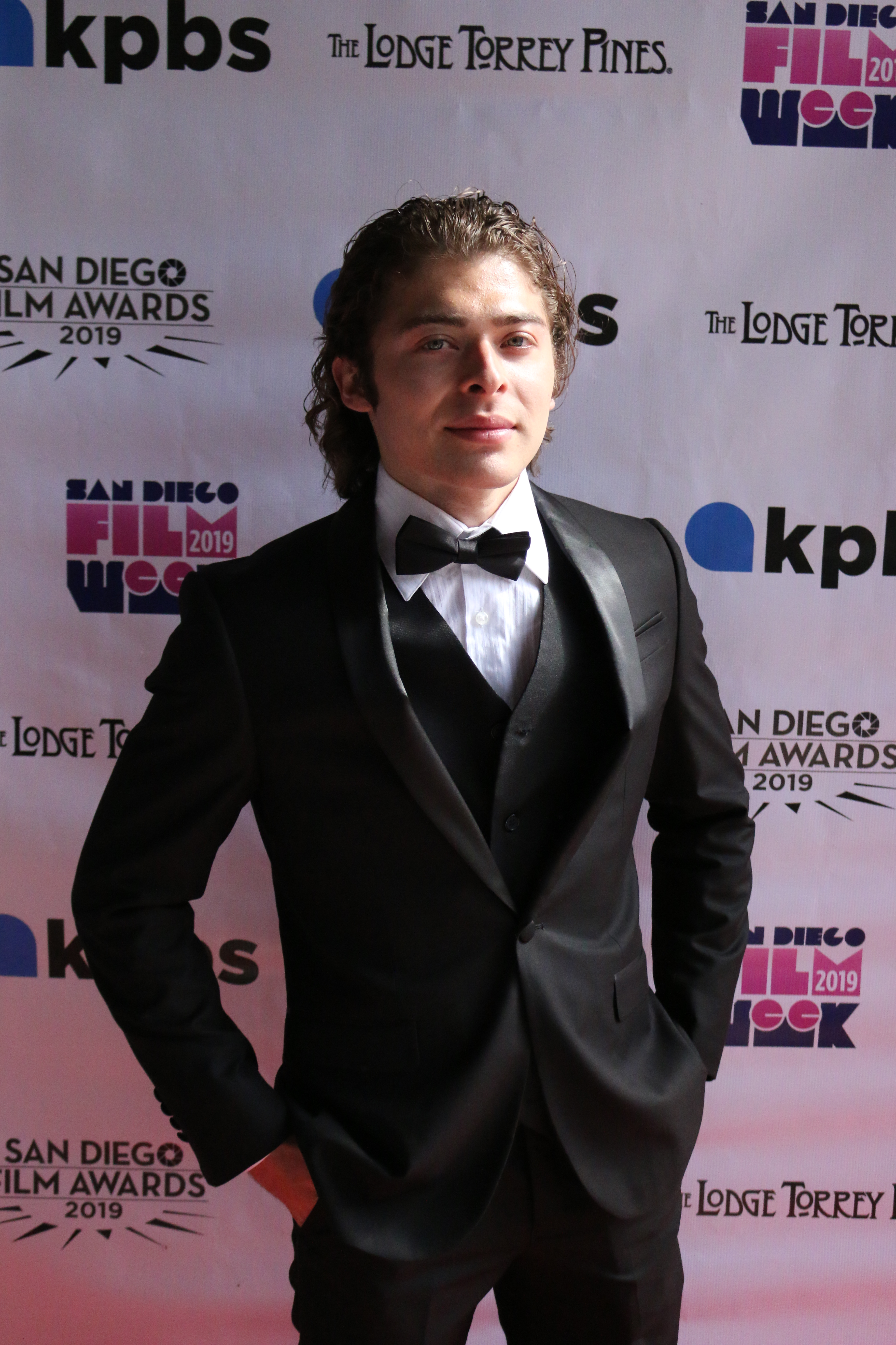 Ryan Ochoa at the San Diego Film Awards 2019 held at PARQ Nightclub in Downtown San Diego.